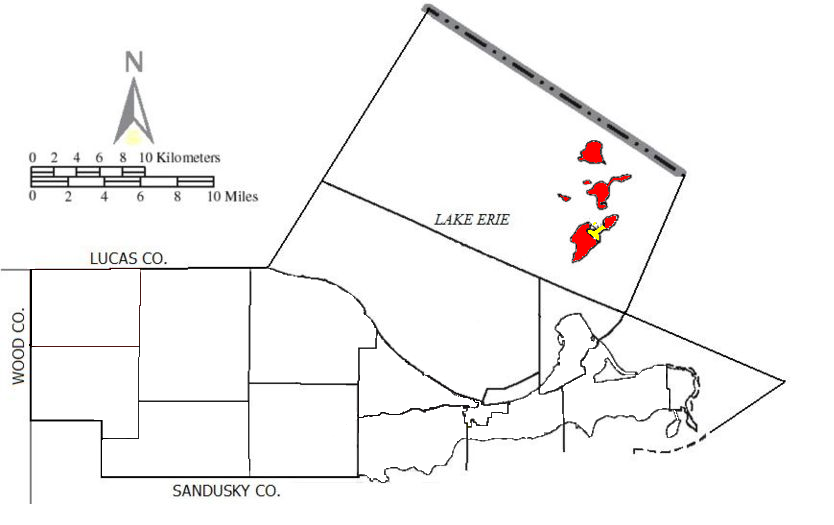 Made by the US Census and modified by myself